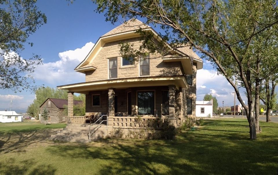 The Willis House, a historic building in Grand Encampment, Wyoming, United States.